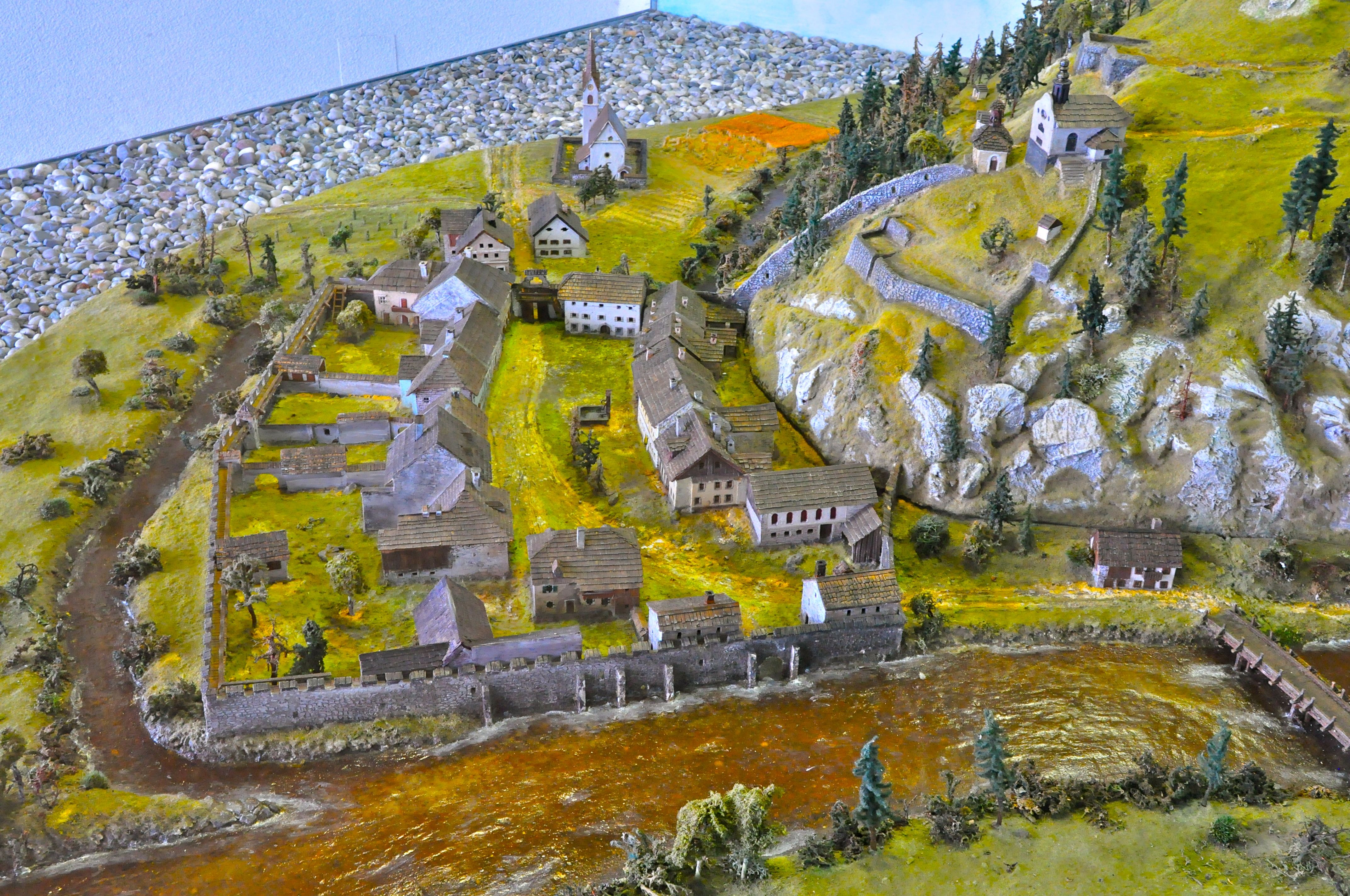 Scale model by Anton Ranacher of the market Sachsenburg, municipality Sachsenburg, district Spittal an der Drau, Carinthia, Austria